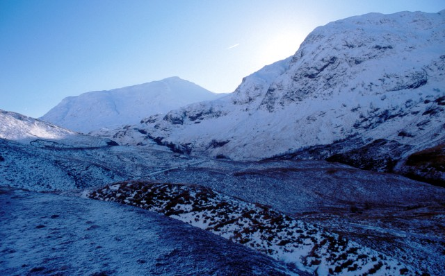 Glencoe and Buachaille Etive Beag. Looking up Glencoe from a short distance along the path from the main parking area